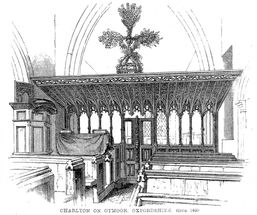 Illustration of foliage-covered garland used in place of a rood cross on top of late-15th-century roodscreen (c.1490) in Charlton on Otmoor church, Oxfordshire. The garland used to be carried in procession around the parish. It is still redecorated twice a year, on May Day and September 19, the village patronal festival.